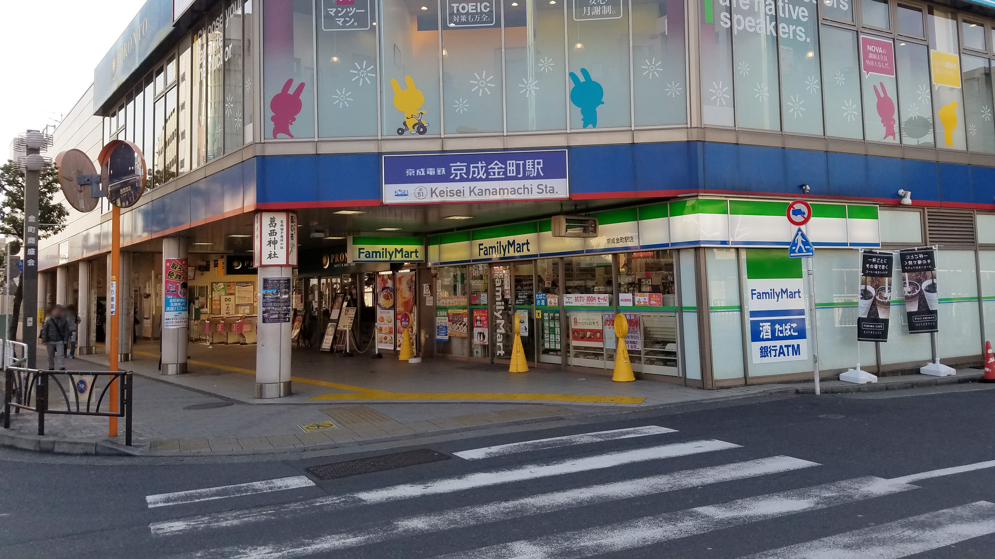 The station building of Keisei Kanamachi Station on the Keisei Kanamachi Line in Tokyo